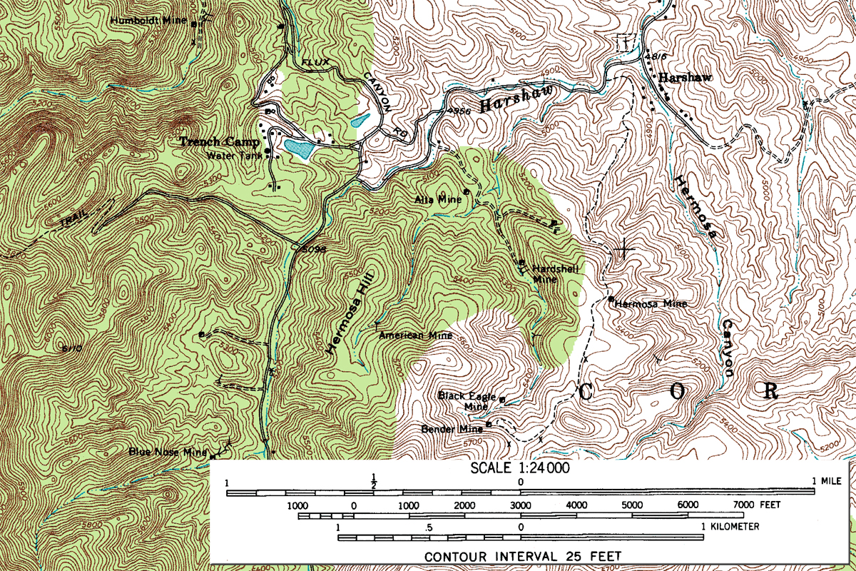 Harshaw Area - Segment of Topographic Map, Harshaw Quadrangle, Arizona, Santa Cruz County. 7.5 minute series. USGS 1958.